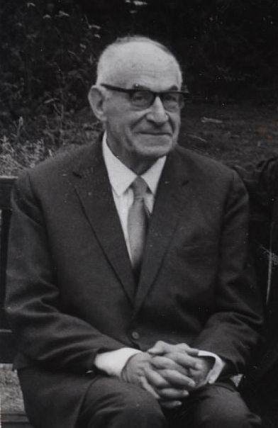 Arthur Lehman Goodhart, KBE, KC (1 March 1891, New York City – 10 November 1978, Oxford) was an American-born British academic jurist and lawyer; he was professor of jurisprudence, University of Oxford, 1931–51, when he was also a Fellow of University College, Oxford. He was the first American to be the Master of an Oxford college, University College and was a significant benefactor to the College.